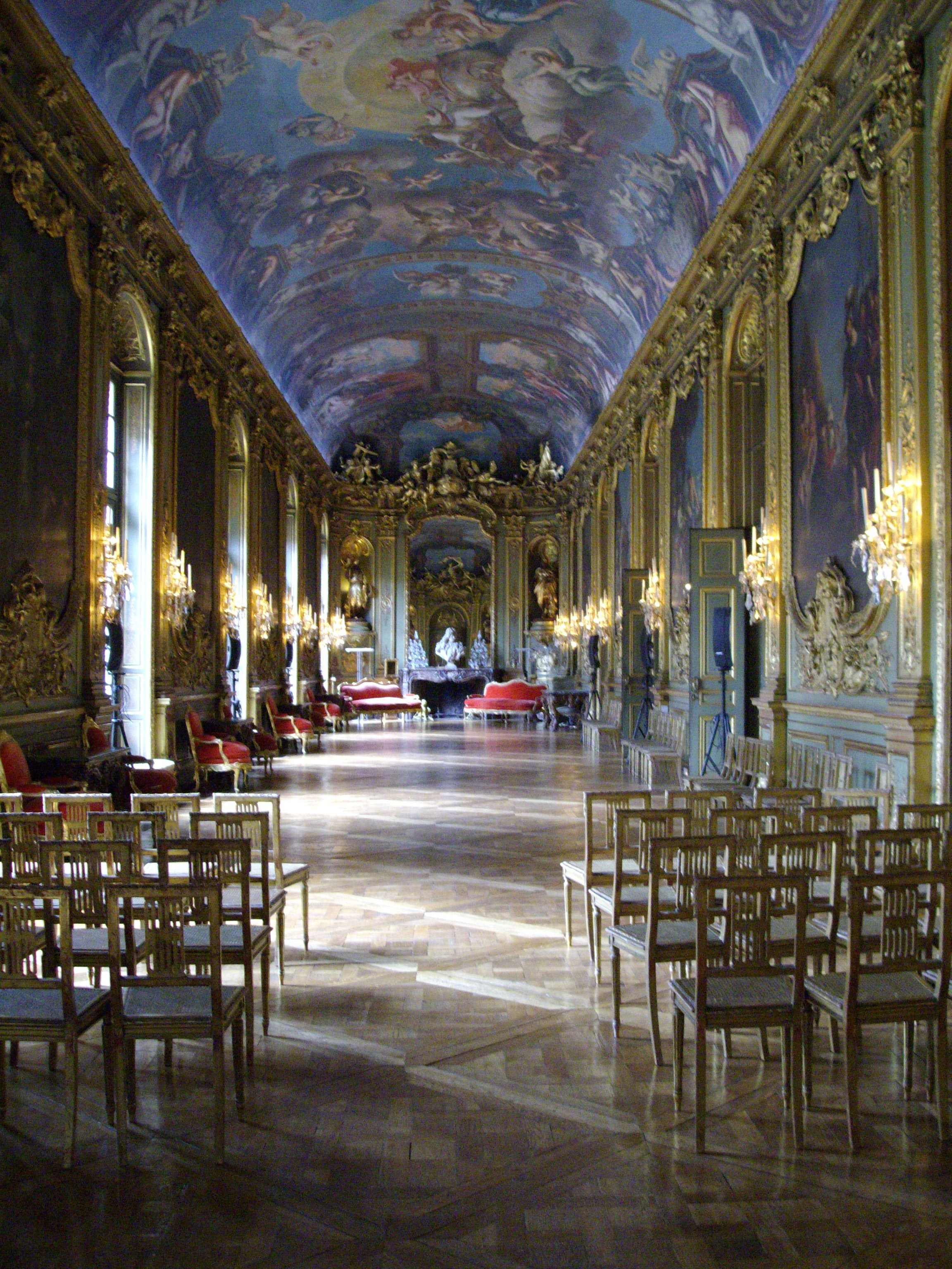 The galerie dorée of the Hôtel de Toulouse, headquarter of the Banque de France in Paris